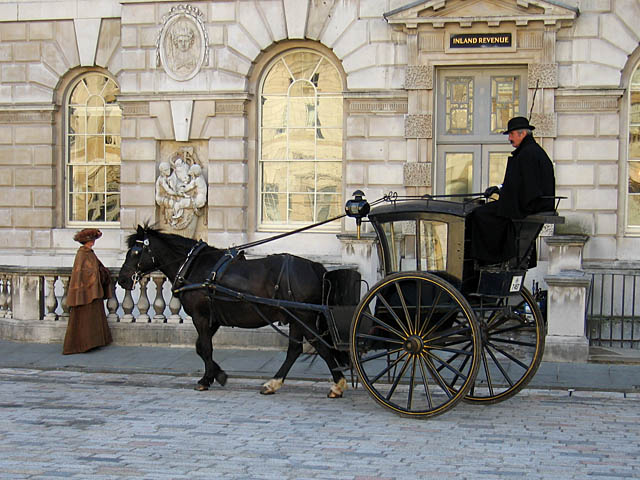 Hansom cab and driver adding character to period filming. The cab was part of the location filming for the TV movie Sherlock Holmes and the Case of the Silk Stocking (IMDB) at Somerset House in London.